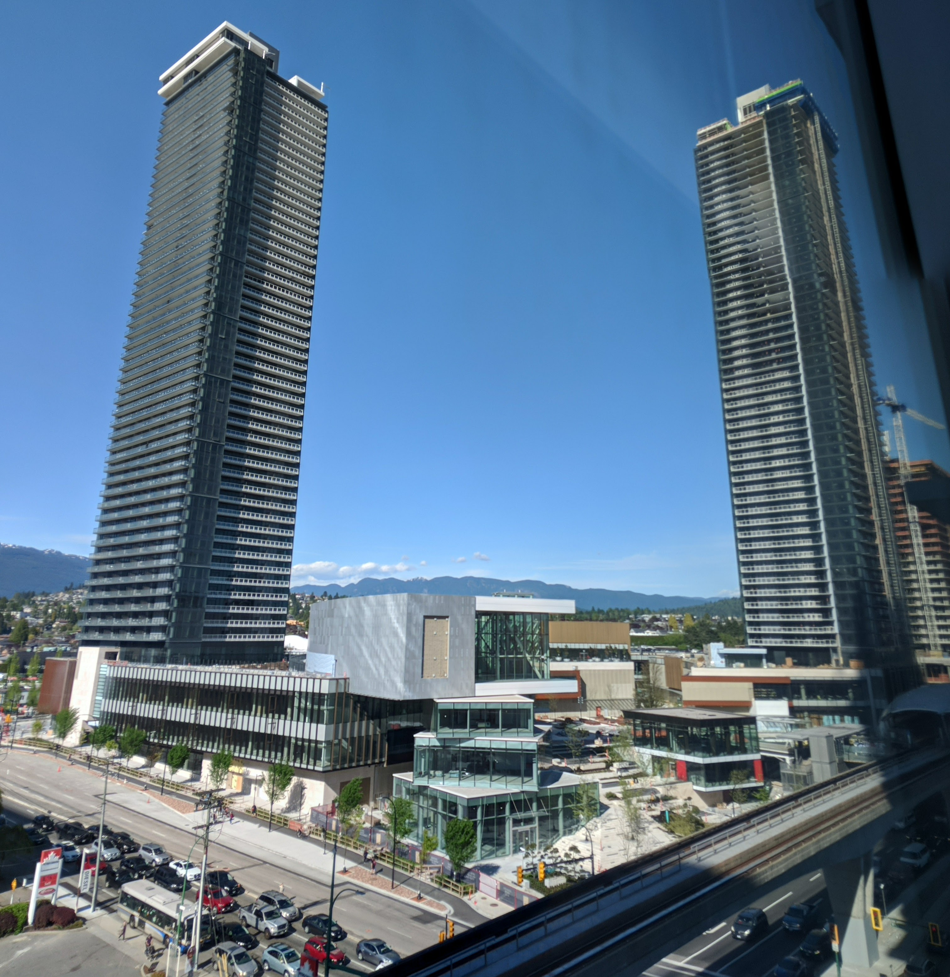 Amazing Brentwood redevelopment nearing completion. Brentwood, Burnaby in May 2019.